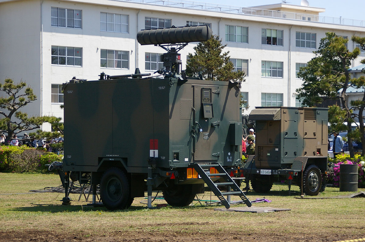 Taken by Los688,29-Apr-2007,JGSDF Camp-Shimoshizu.JGSDF HAWK SAM Battery Command Post(BCP),Air Defence Artillery School unit.PD-self. ja:2007年4月29日、投稿者撮影。陸上自衛隊下志津駐屯地記念行事。改良ホーク 中隊指揮装置、高射教導隊。